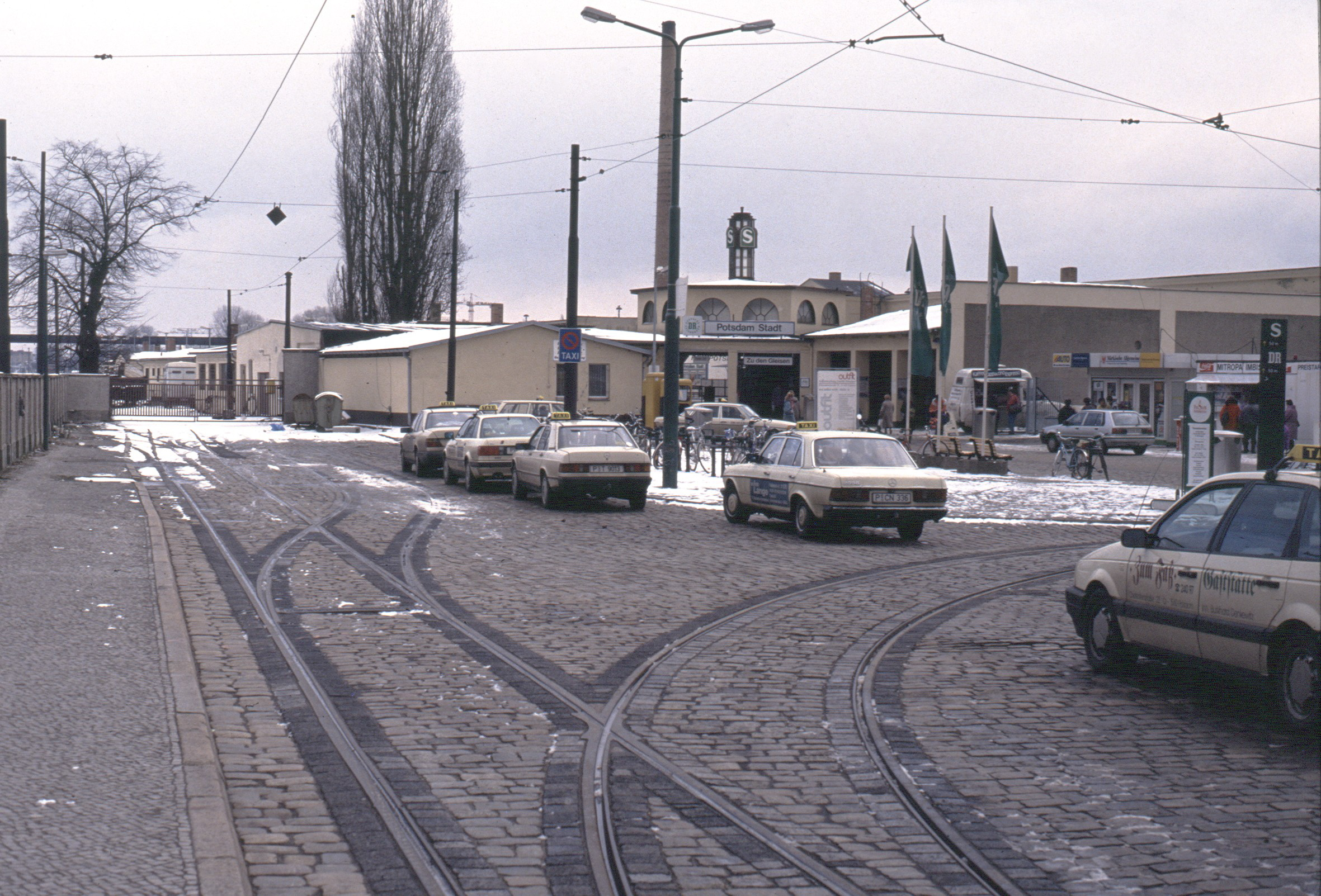 Potsdam Stadt train station; forecourt with main building; Potsdam, Germany